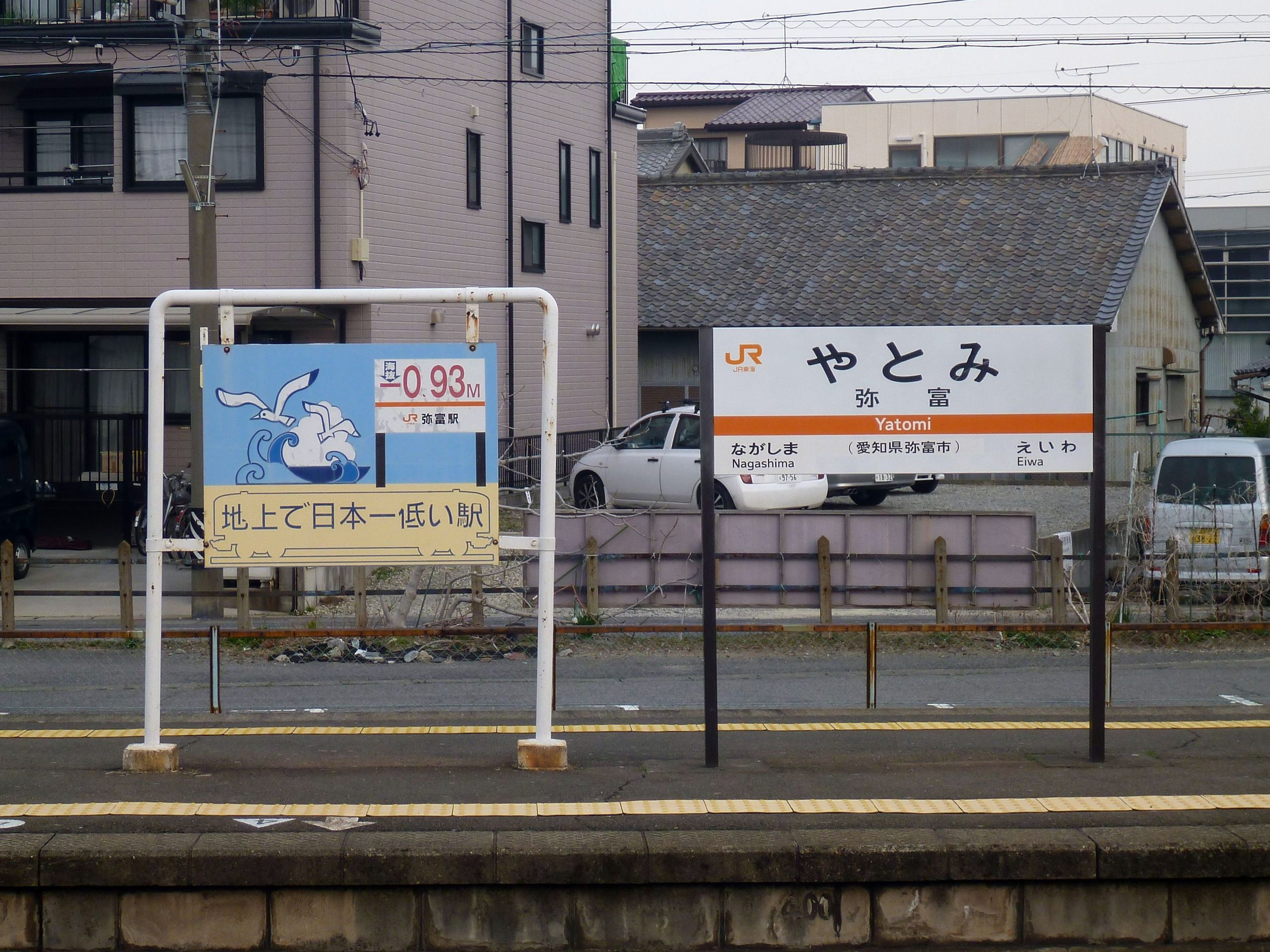 Yatomi Station